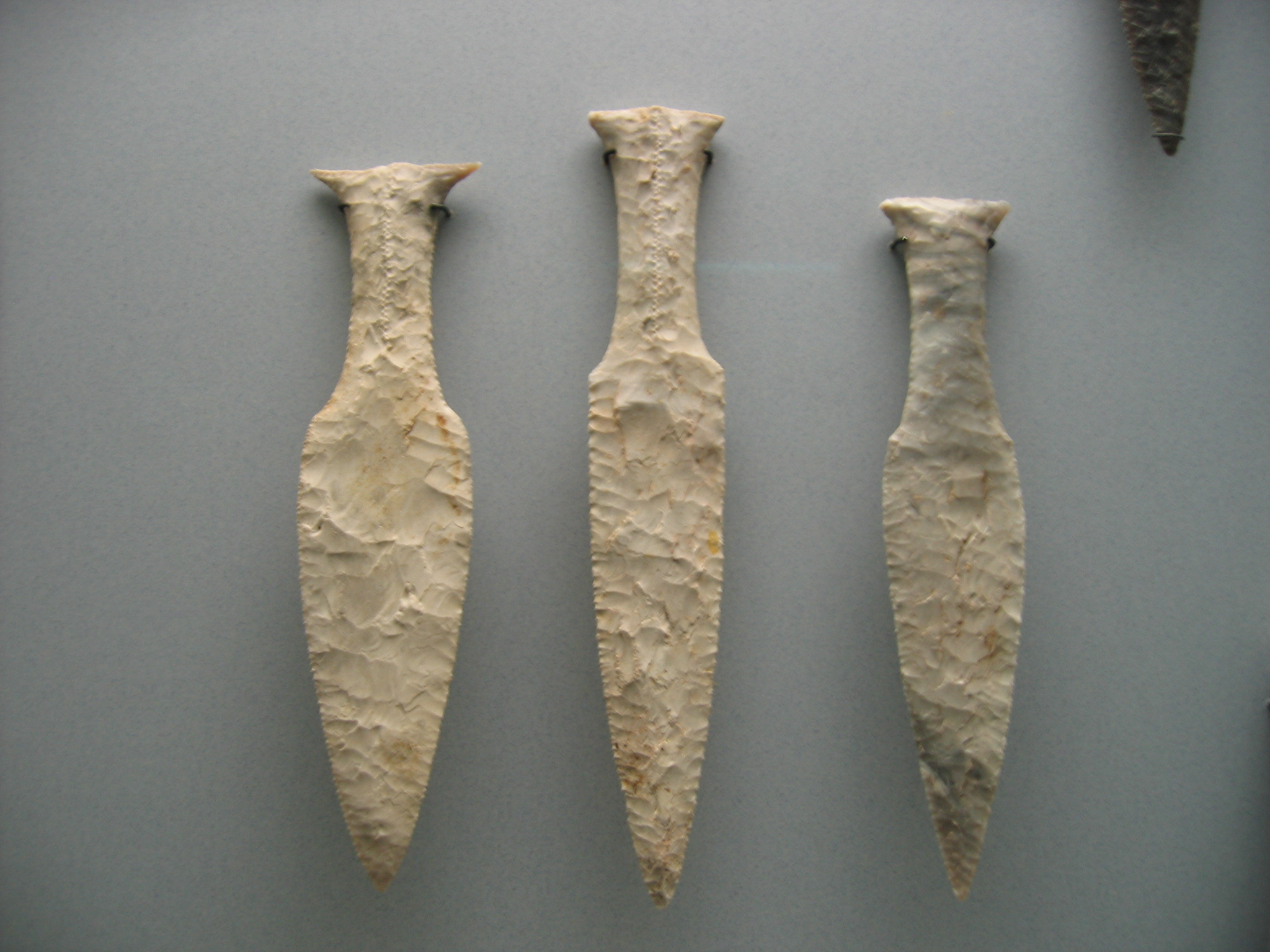 Neolithic fish tail daggers taken in at the Archäologisches Landesmuseum Schloss Gottorf, Schleswig, Germany.